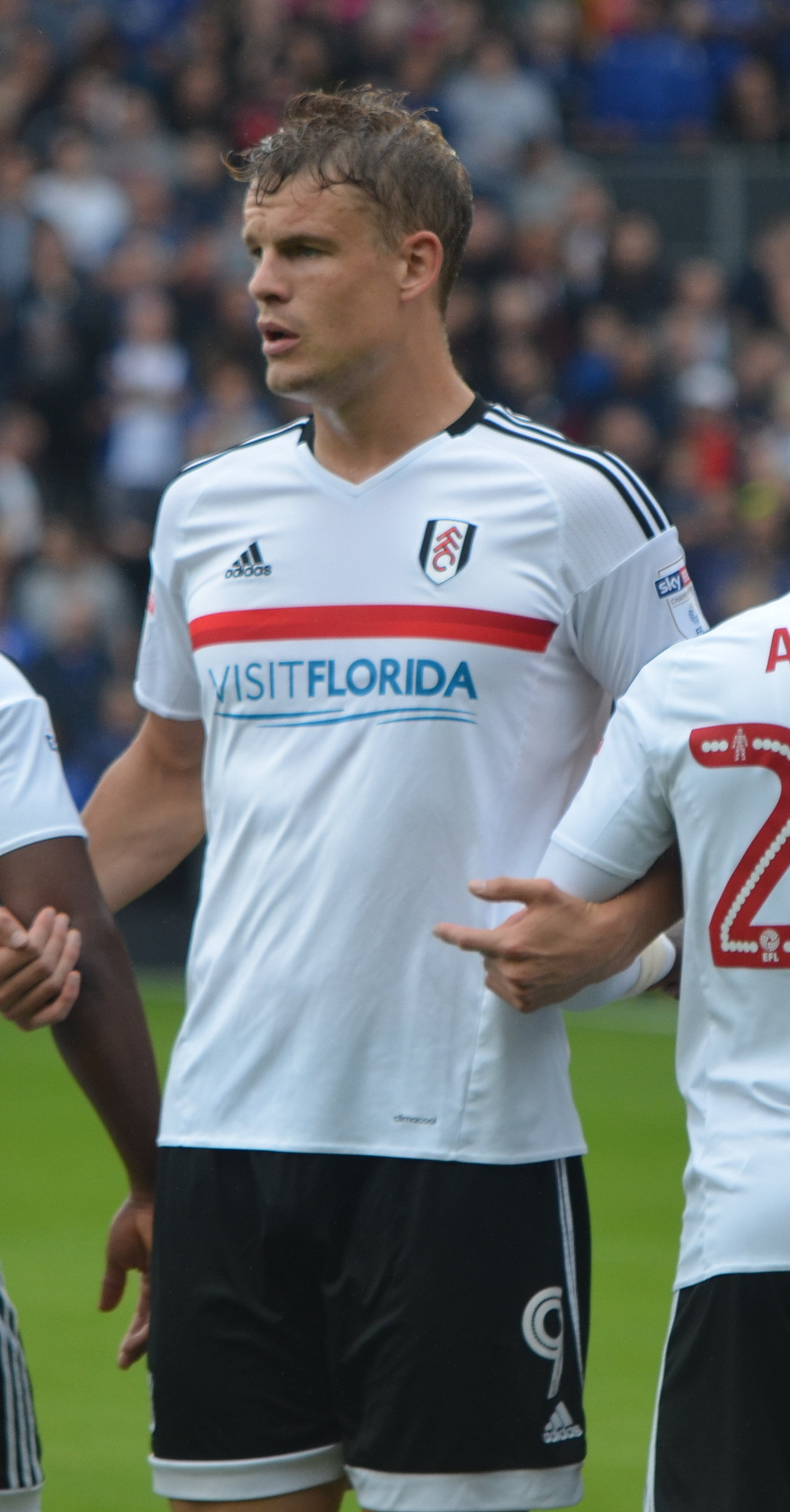 Matt Smith playing for Fulham against Birmingham City at Craven Cottage, London on 10 September 2016